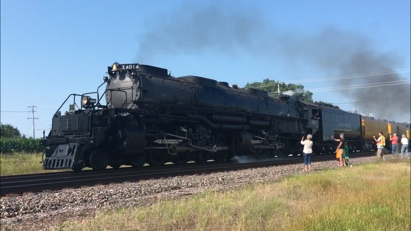 The Big Boy passing through Sono Junction, Wisconsin on July 23, 2019 as part of the "Great Race Across the Midwest" celebratory tour